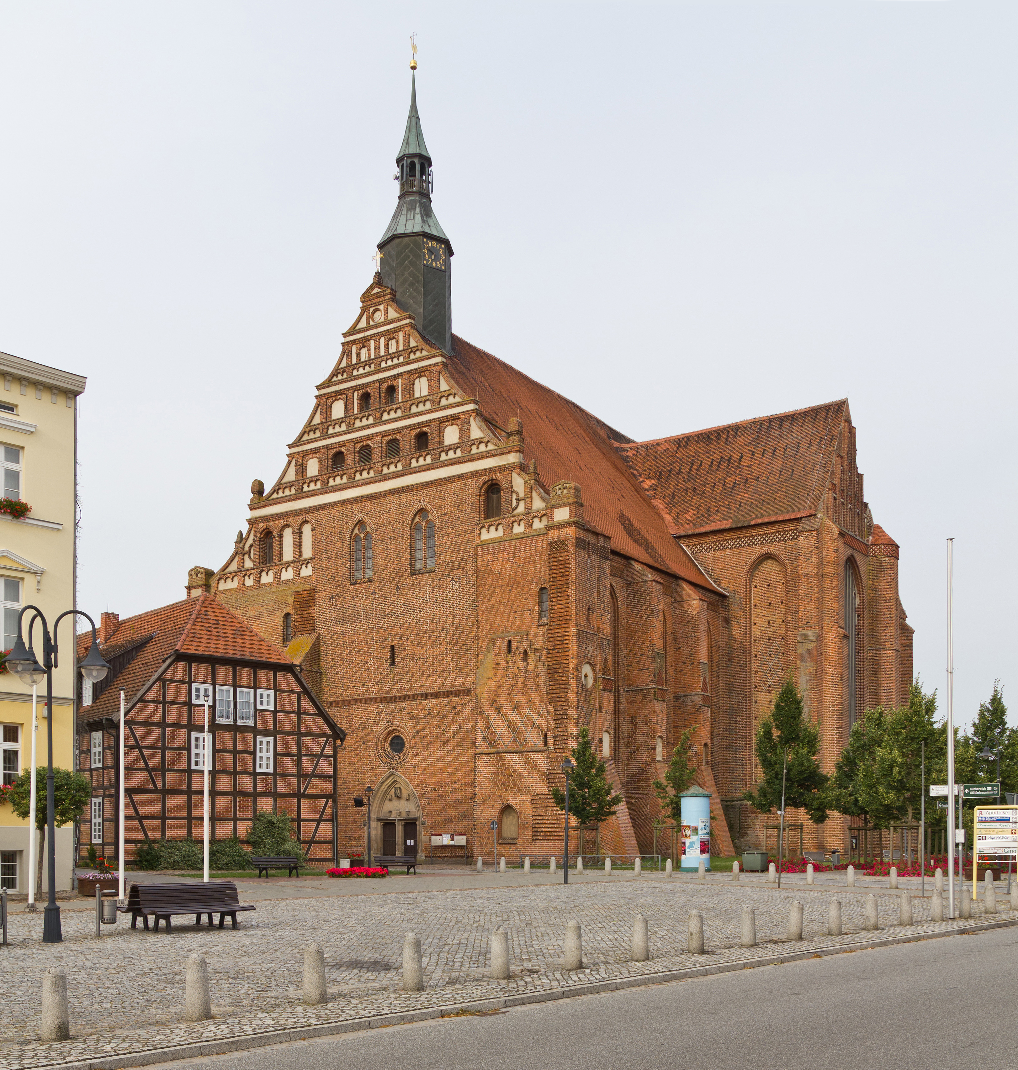 Bad Wilsnack, Brandenburg, Germany. St. Nicholas Church.